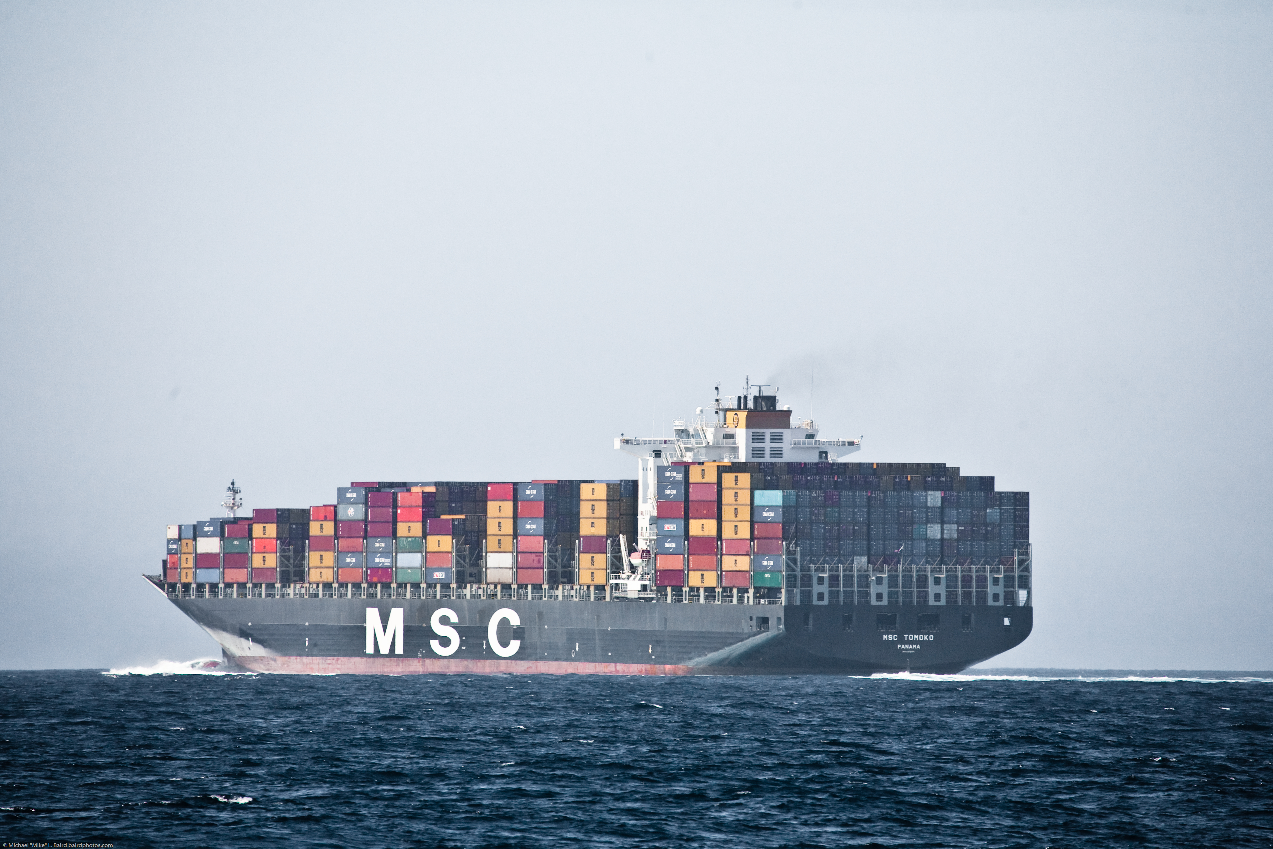 Massive Container Freighter Ship MSC TOMOKO PANAMA Mediterranean Shipping Company S.A. in the Santa Barbara Channel. Look at those containers the size of an 18-wheel trailer, stacked 6-7 high, 17 wide, and in 17 rows for maybe 1700 containers. Ten of us docent types from Morro Bay, CA, take a 4-hour Whale Watching boat trip tour on the Condor Express out of Santa Barbara, CA, to Santa Cruz Island in the Channel Islands in Central-Southern California, on Labor Day 07 Sept 2009. Organized by Rouvaishyana of the CA State Park Museum of Natural History in Morro Bay, CA. Photo by Michael "Mike" L. Baird, mike [at} mikebaird d o t com, ; Canon 5D, Canon 100-400mm Lens with circular polarizer (which made a big difference) handheld on a moving boat. 10 Nov 2010: Creative Commons request approved: tricksofthrush has sent you a message on Flickr. Subject: Date: 10th November, 2010. I'm putting together photos for an illustrated book on Karl Marx, and I think your photo would work well with it. If you contribute, you will receive a copy of the book and a photo credit. To contribute, you'll need to sign an agreement with us, which I will provide, and send a high res version of the image. Let me know at jake {at] markbattypublisher d o t com if you are interested or have questions. Best, Jake A: Jake, that's fine with me. If you send me a release form I can digitally sign and e-return it. also answers every question ever asked about using one of my photos under Creative Commons (CC) Attribution: How to attribute, access full-resolution versions, how to link back to the image page, and how to please comment on the image used linking to your use. The highest resolution version (4214 x 2810) is already posted at My address for a copy of the book is: "Mike" Michael L. Baird, mike {at] mikebaird d o t com 2756 Indigo Circle Morro Bay, CA 93442